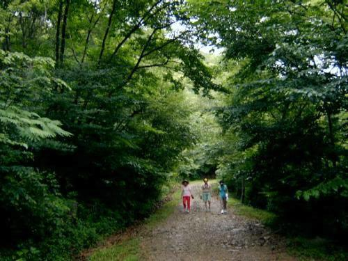 Hoemunsan in Jeonlabuk-do, South Korea 전라북도 회문산 자연휴양림